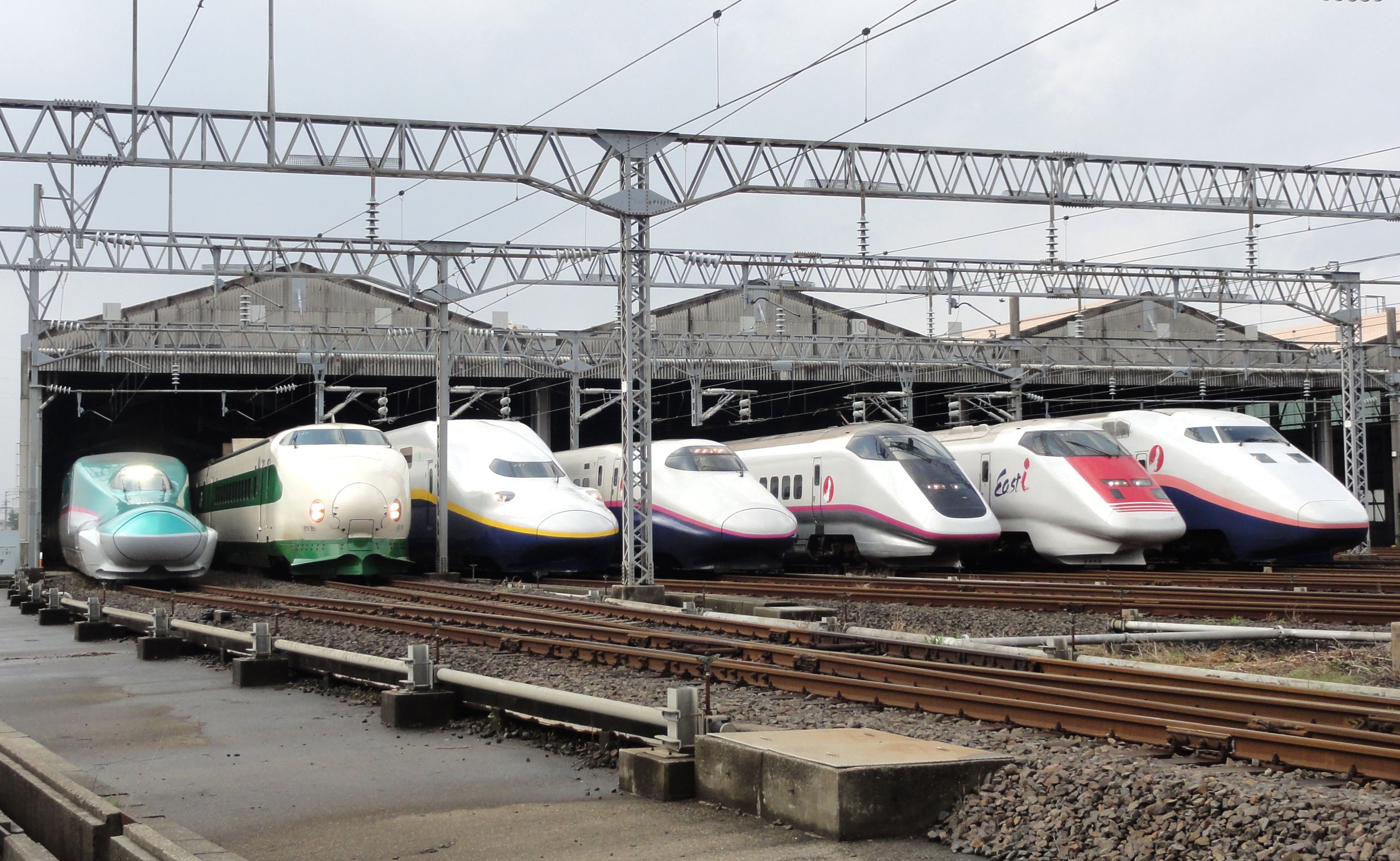 JR East Shinkansen Lineup on a Public opening Event (the 30th Anniversary of the Jōetsu Shinkansen) at Niigata Shinkansen Rolling Stock Center / (from the Left) E5 Series, 200 Series, E4 Series, E2 Series, E3 Series, E926 Type (East i), and E1 Series